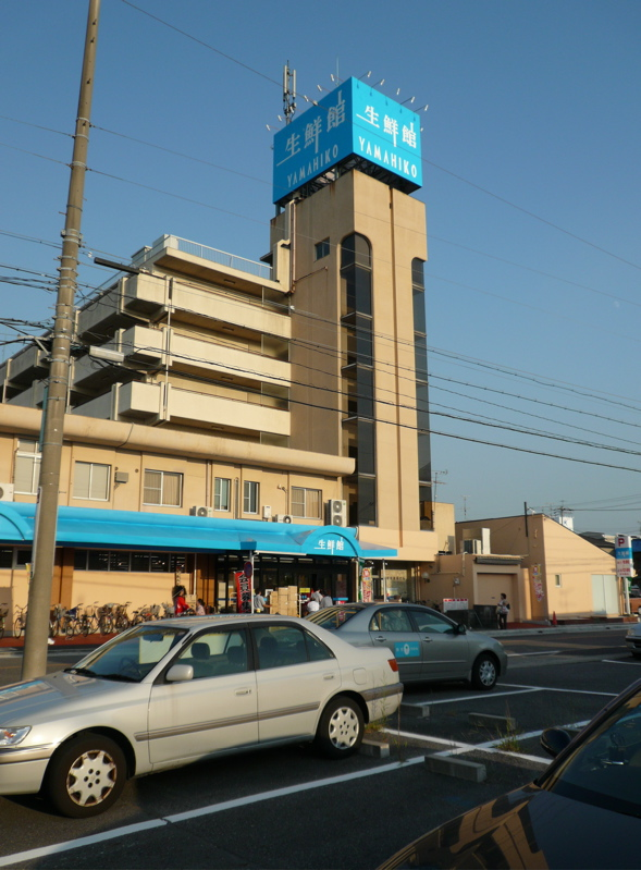 Seisenkan-Yamahiko_Nyoi